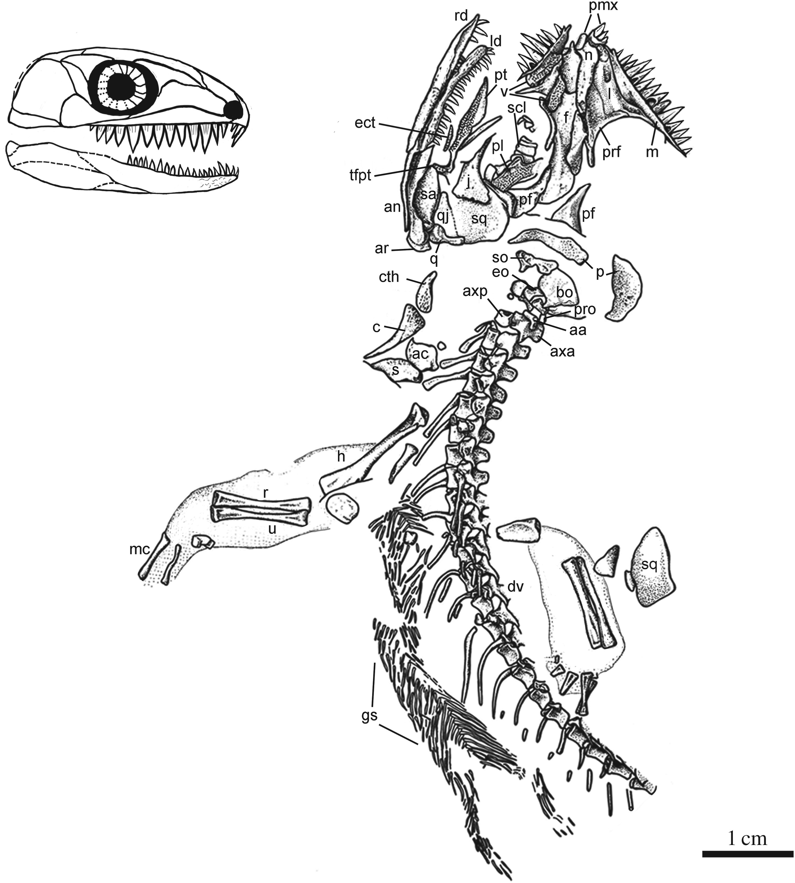 Illustration of the cranial and postcranial anatomy of Cephalerpeton ventriarmatum (YPM 796), modified from Carroll & Baird, and a cranial reconstruction.